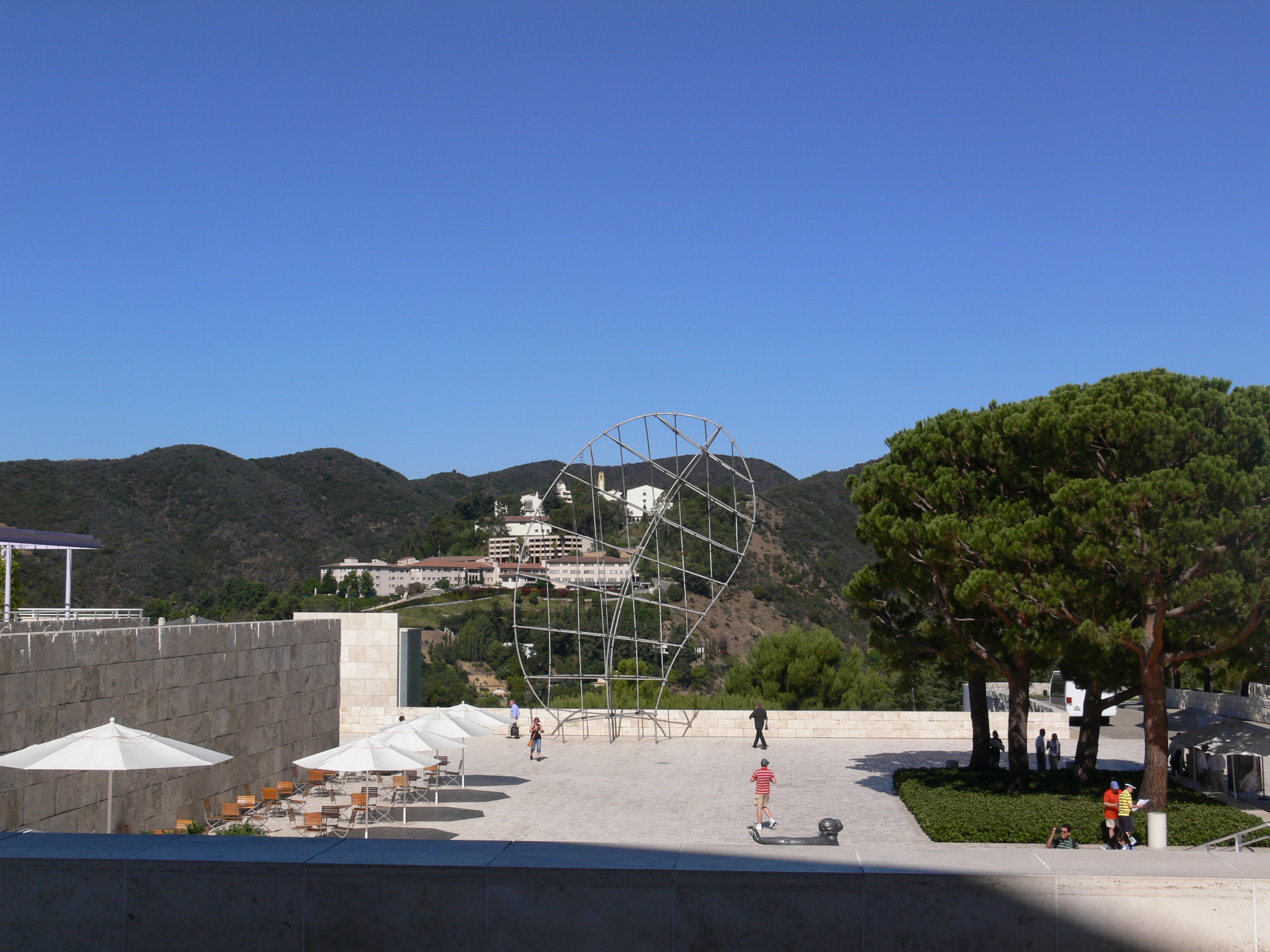 Getty Center, Los Angeles, California Landward view from the Getty Center